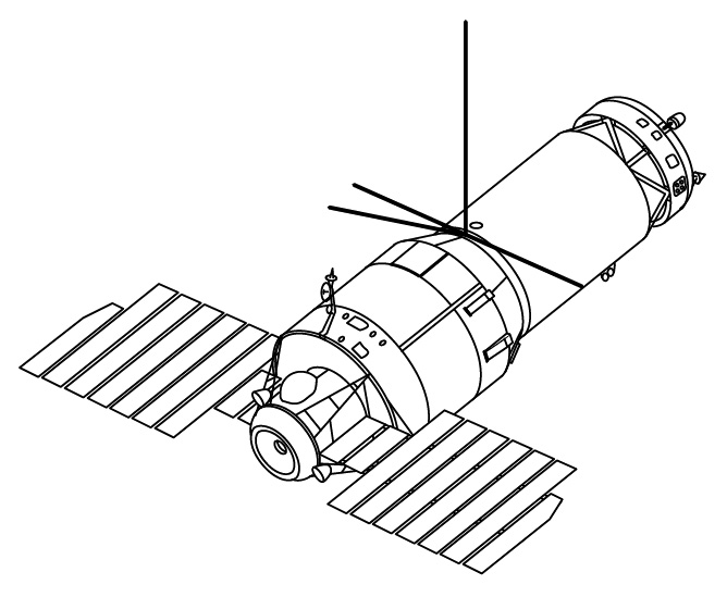 Figure 2-7. Salyut 3, the first successful Almaz space station. The drogue docking unit is at the rear of the station (left), between the two main engines.